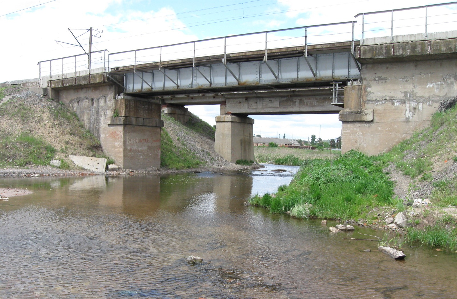 Studenok River (upper tributary of Udy)